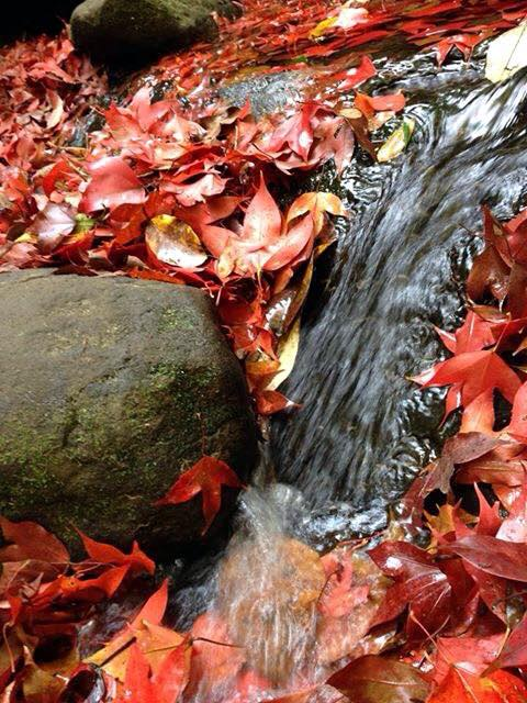 อุทยานแห่งชาติภูกระดึง